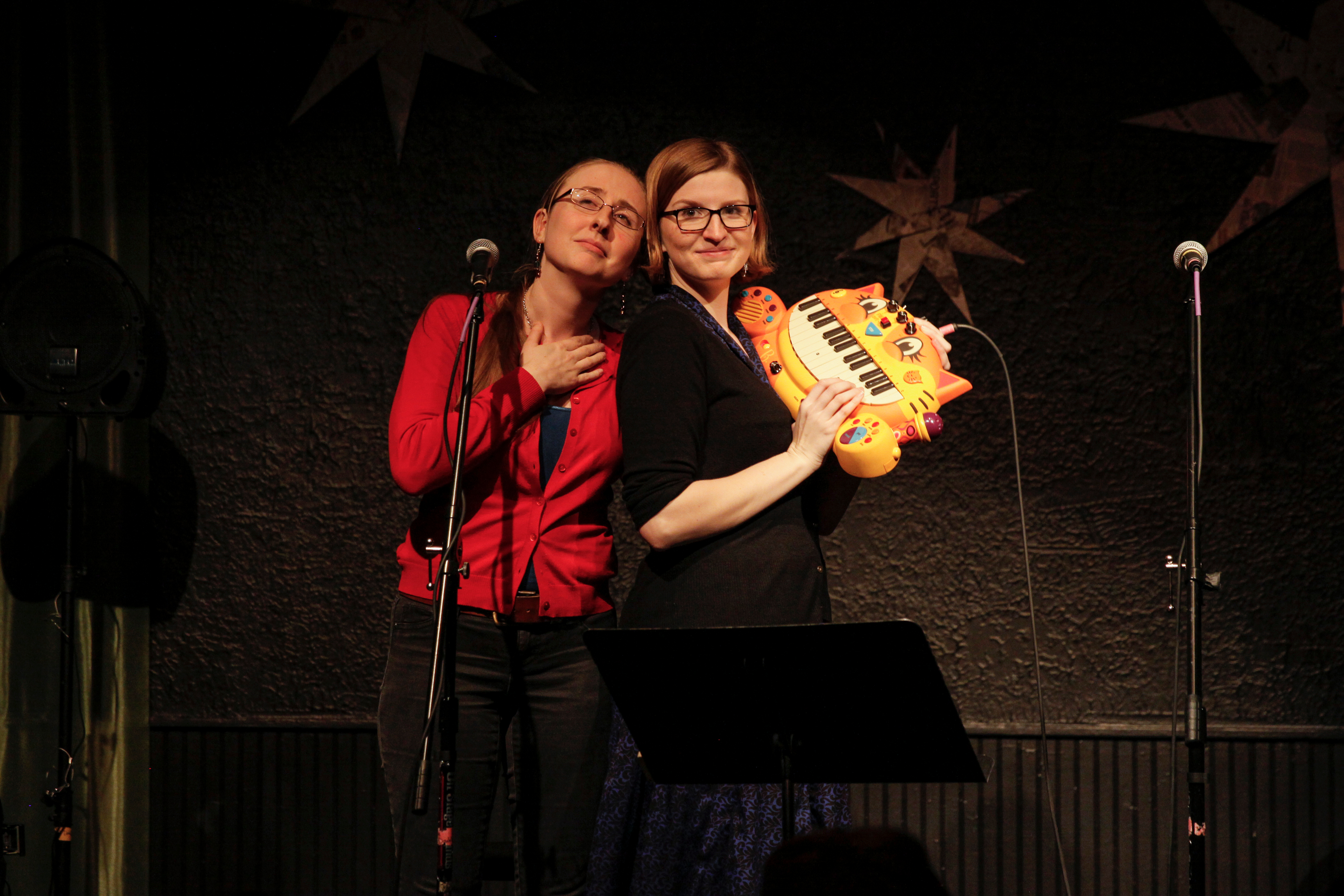 Photos by Britta Marie Photography, of January 2014 NerdNightOut featuring Barbara Holm, The Doubleclicks and Molly Lewis NerdNightOut January 2014 featuring Barbara Holm, The Doubleclicks and Molly Lewis. Photo by Britta Marie Photography.